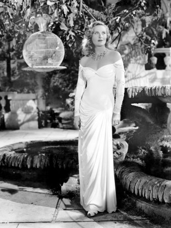 Publicity photo of Michèle Morgan for an american film The Chase